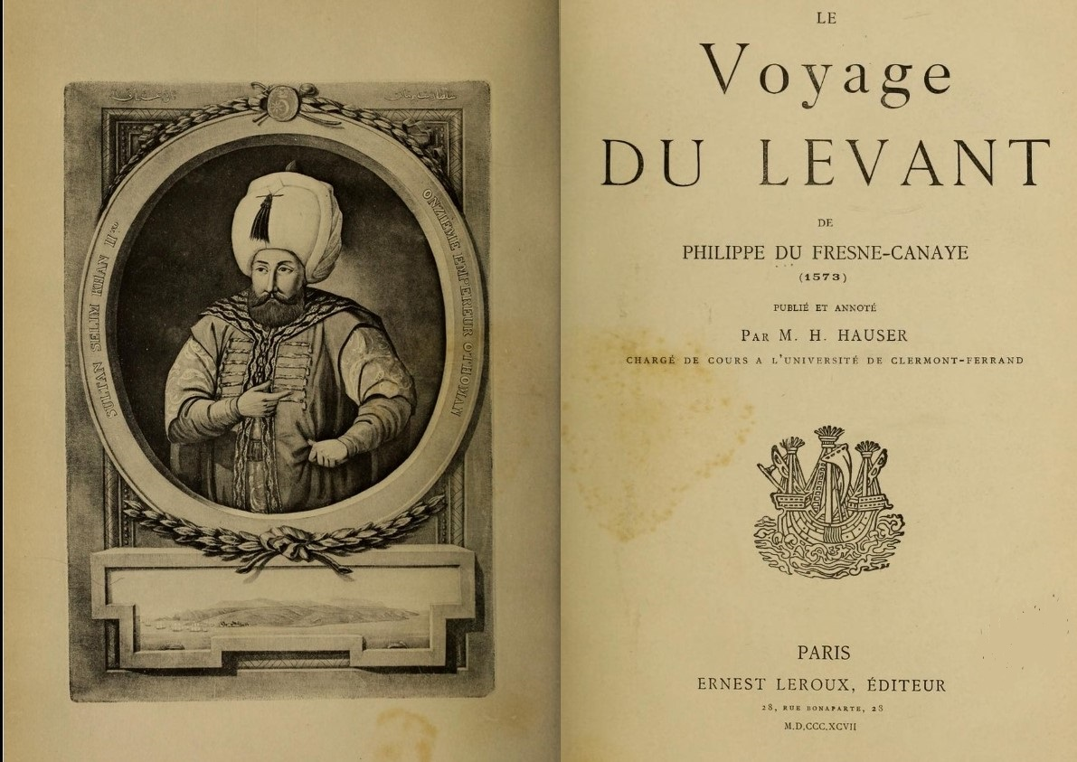 Title page and frontispiece, of Le Voyage Du Levant de Philippe Du Fresne-Canaye. The main text is by Philippe du Fresne-Canaye (1551–1610). It was published for the first time in 1897 in this book. The translation, notes, and introduction were by Henri Hauser (1866–1946). The portrait on the frontispiece is of Selim II, whom Canaye visited on the voyage.